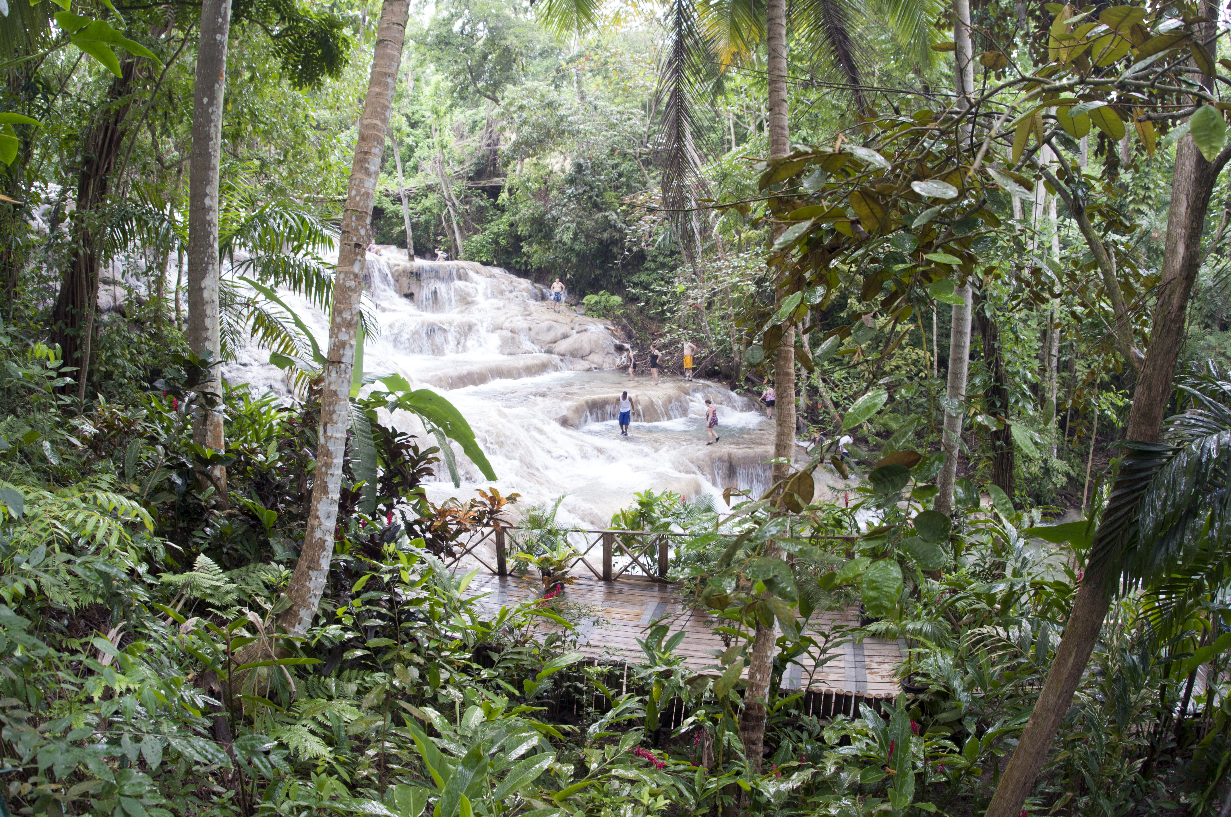 the Dunns River Falls Photo D Ramey Logan